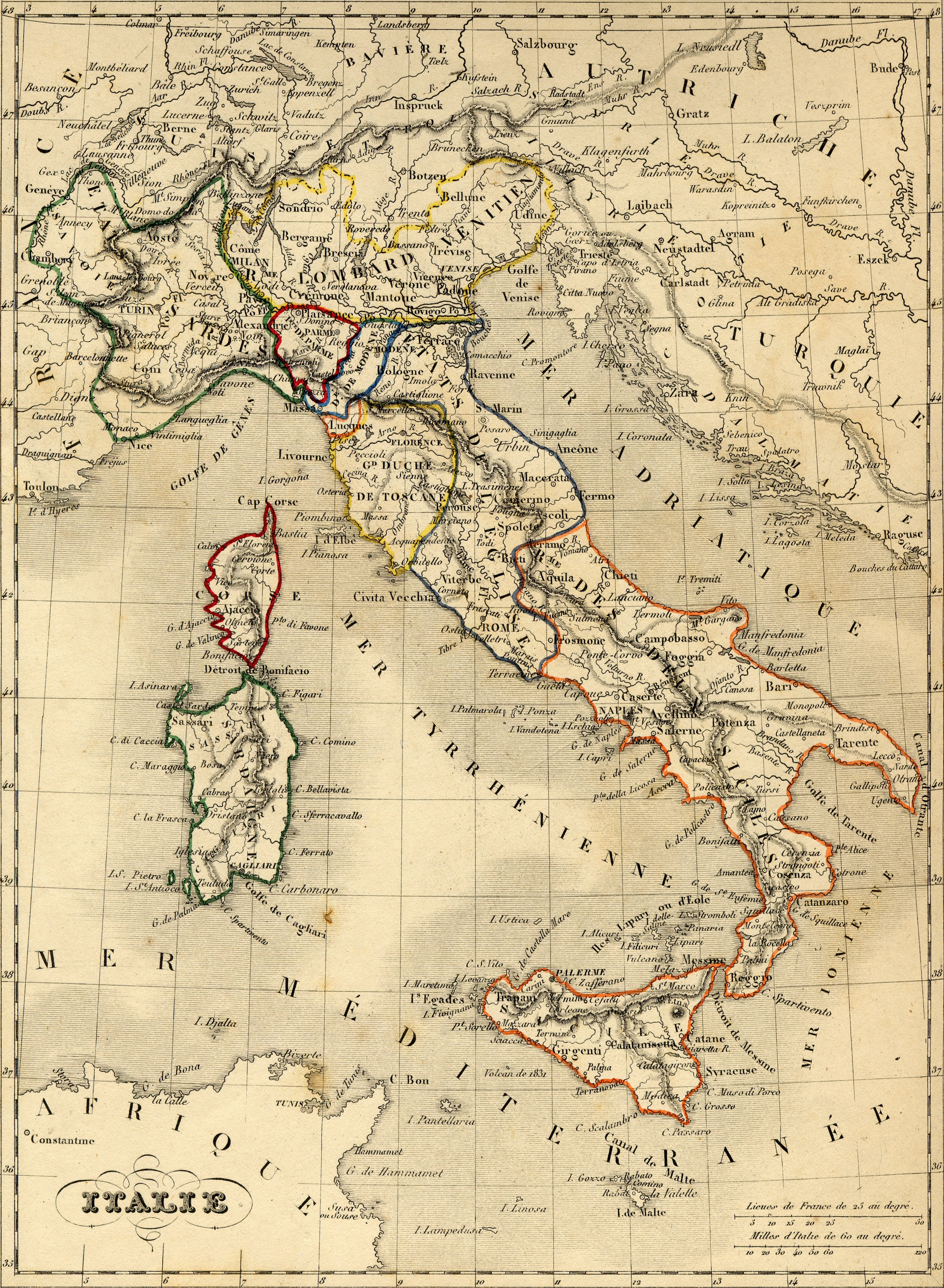 Map of Italy (wp-EN) with french names made by Alexandre Vuillemin in 1843 extracted from his “Atlas universel de géographie ancienne et moderne à l'usage des pensionnats”.